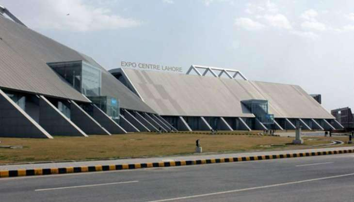 Main hall of Lahore Expo Centre, Johar Town, Lahore, Pakistan.